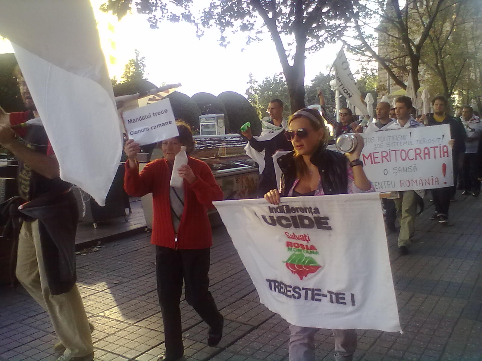 Protests against Rosia Montana gold exploatation in Timisoara, on September 22, 2013